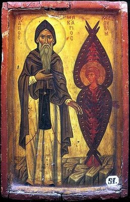 Saint Macarius of Egypt and the Cherub. Venerable Saint Macarius (ca. 300- d. 391, Scetes, Egypt) is one of the most prominent desert Fathers of the Church, known also as Macarius the Great.